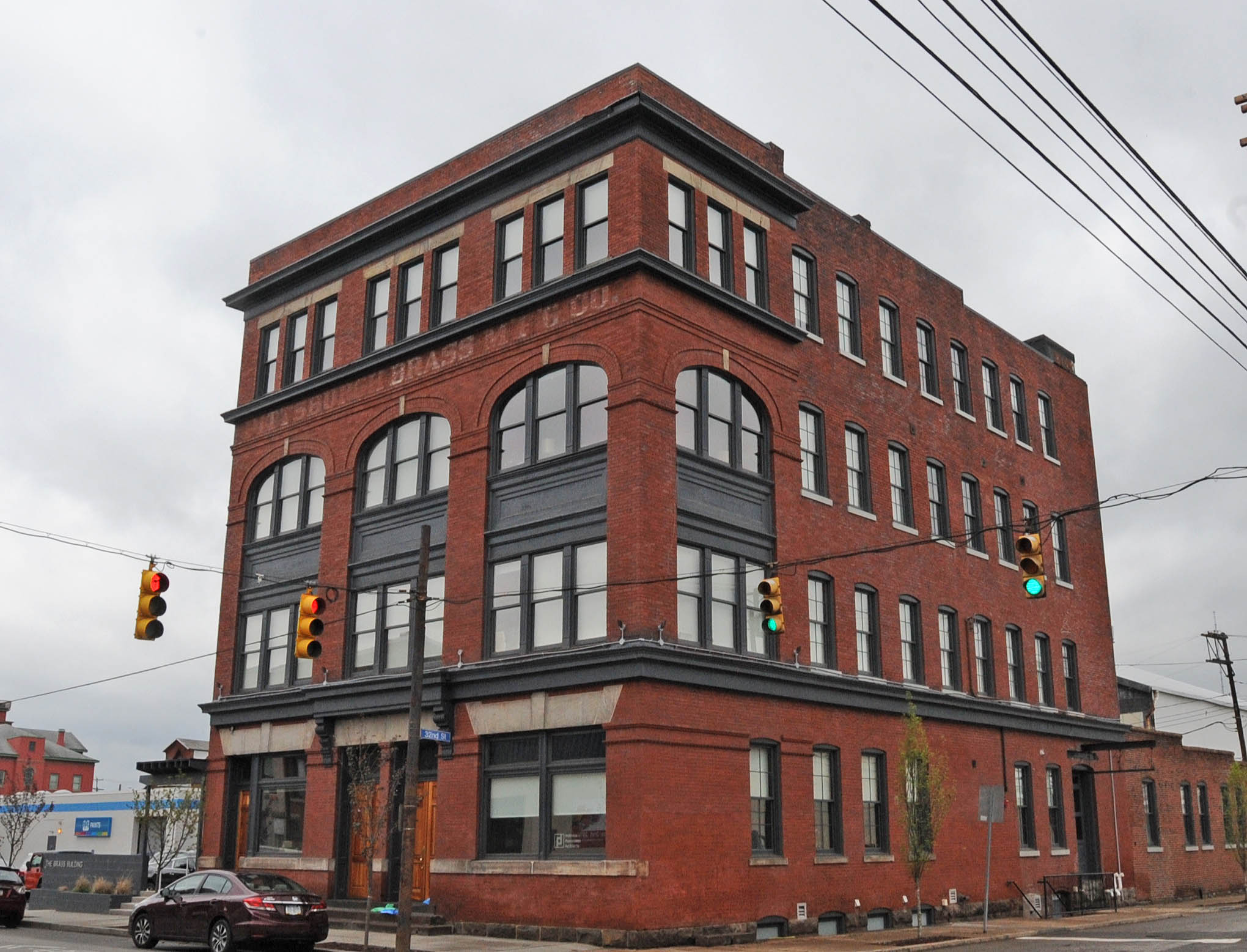 BUILT CIRCA 1903. THE LEGEND "PITTSBURGH BRASS MFG.CO." IS STILL BARELY LEGIBLE BETWEEN THE SECOND AND THIRD STORIES OF THE BUILDING